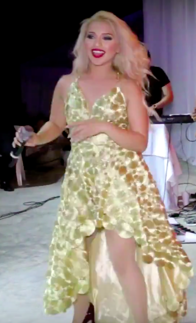 Giselle Tavera at Mala Praxis Live